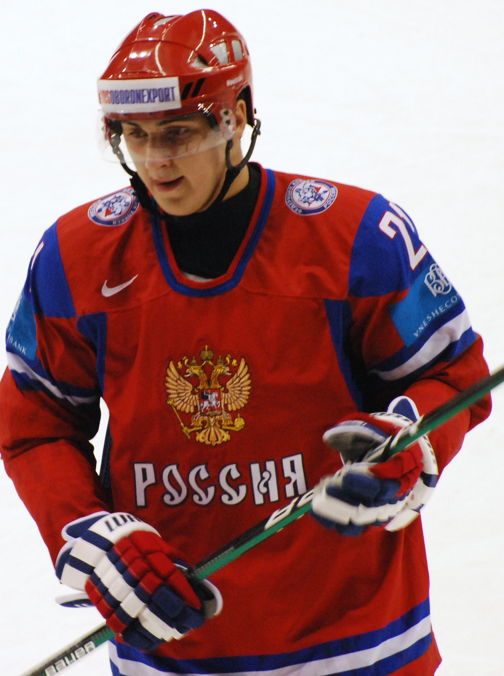 Kirill Petrov playing for Team Russia at the 2010 IIHF World Junior Hockey Championships.